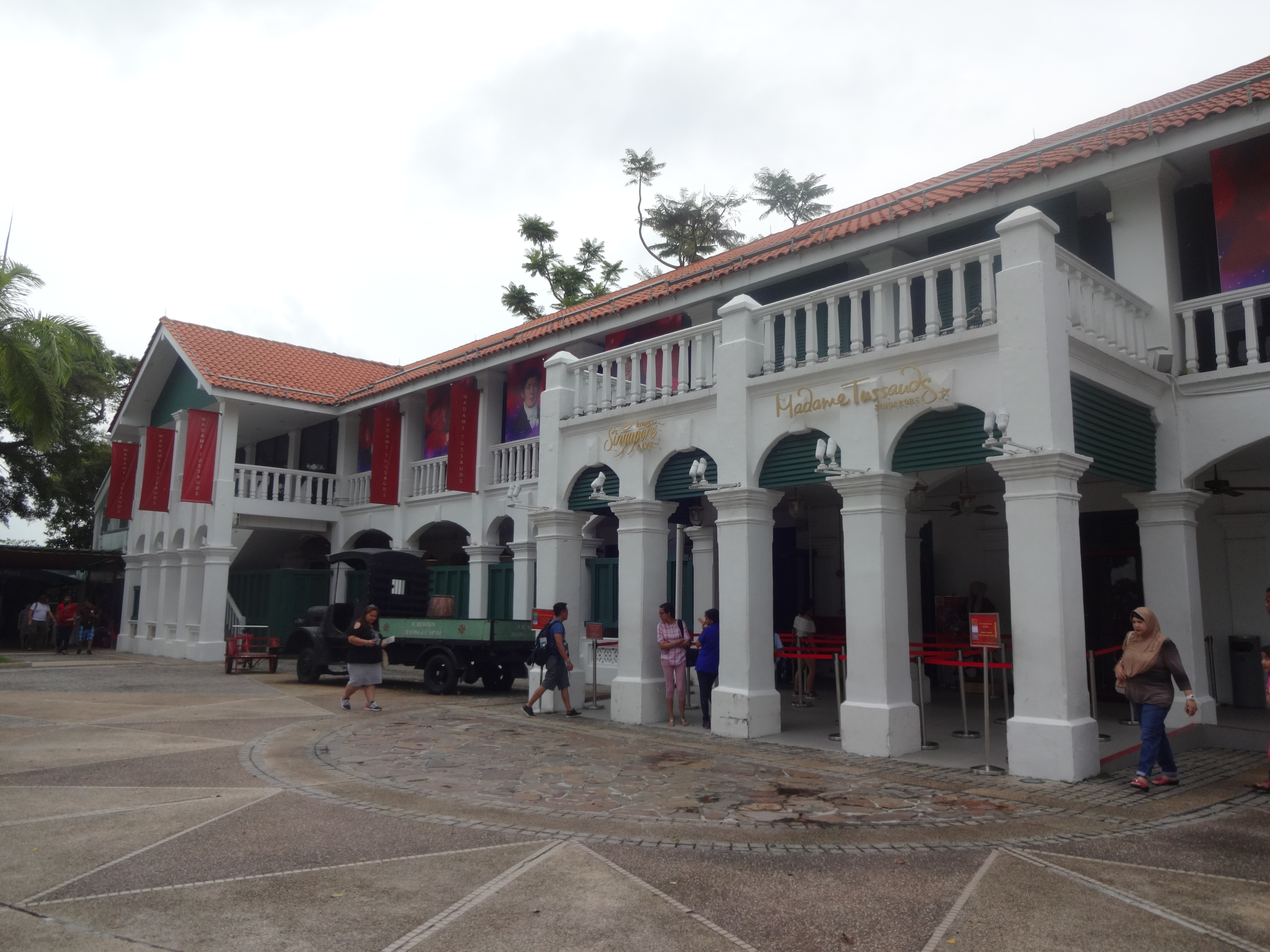 The facade of the Madame Tussauds Singapore wax museum, adjacent to the Images of Singapore attraction, at the Imbiah Lookout in Sentosa Island, Singapore taken on 29 December 2015.